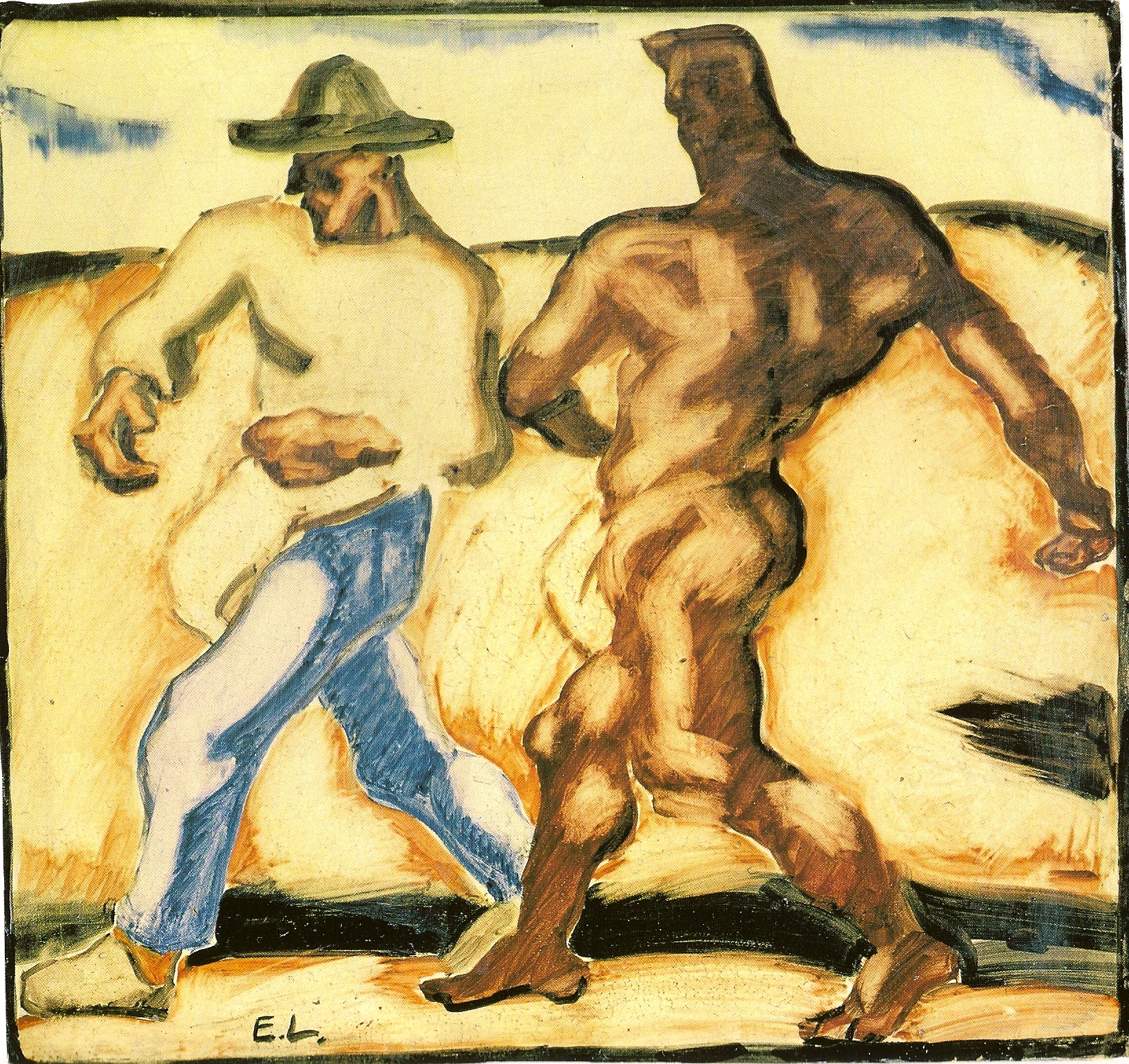 Sower and devil